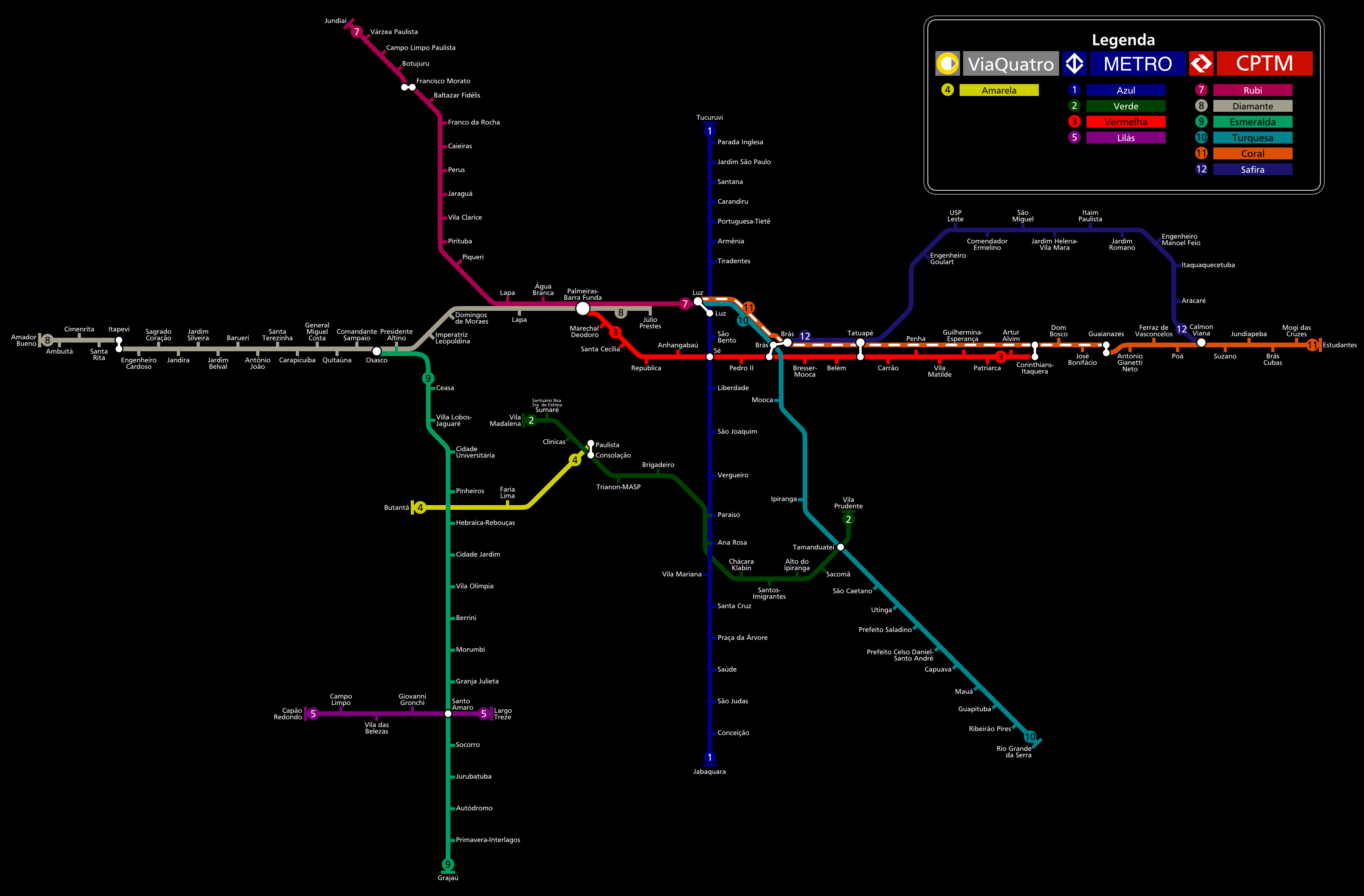 Actual map of rapid transit over rails network in São Paulo Metropolitan area